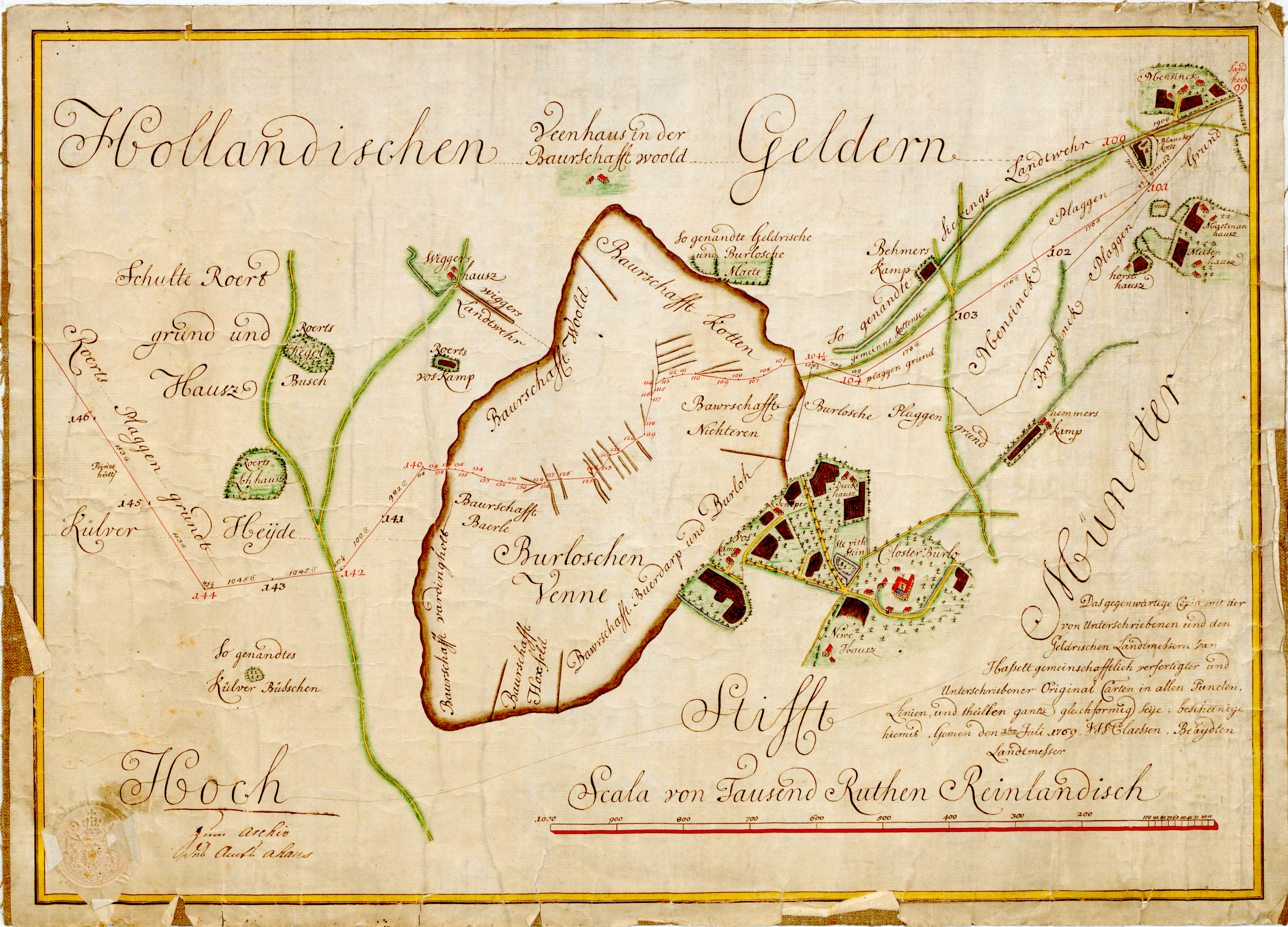 Map of the boundary between Prince-Bishopric of Münster and Guelders as it was established in Burlo (today city of Borken in Westphalia) on 10/19/1765.